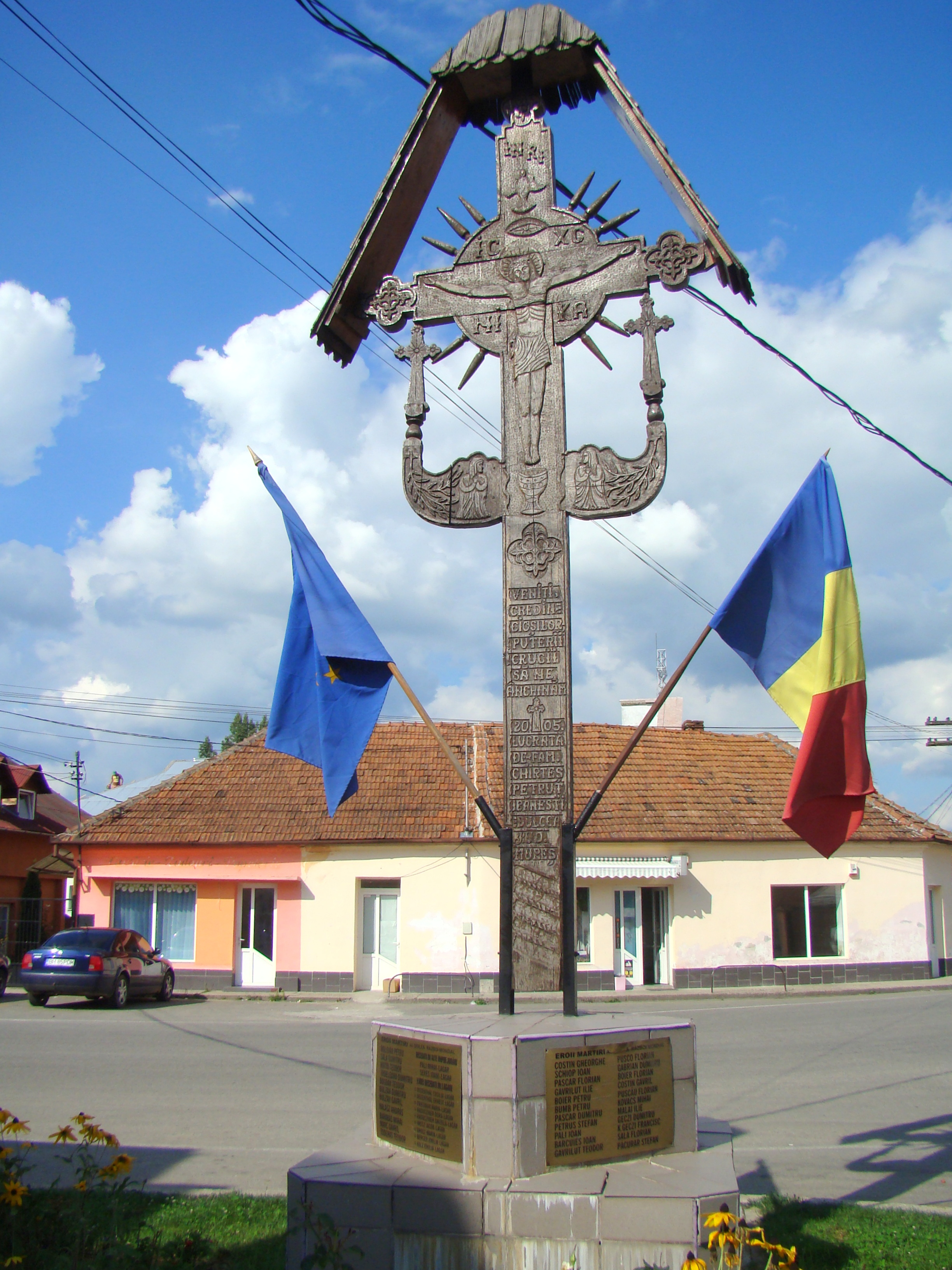 World War Memorial in Vadu Crișului, Bihor county, Romania